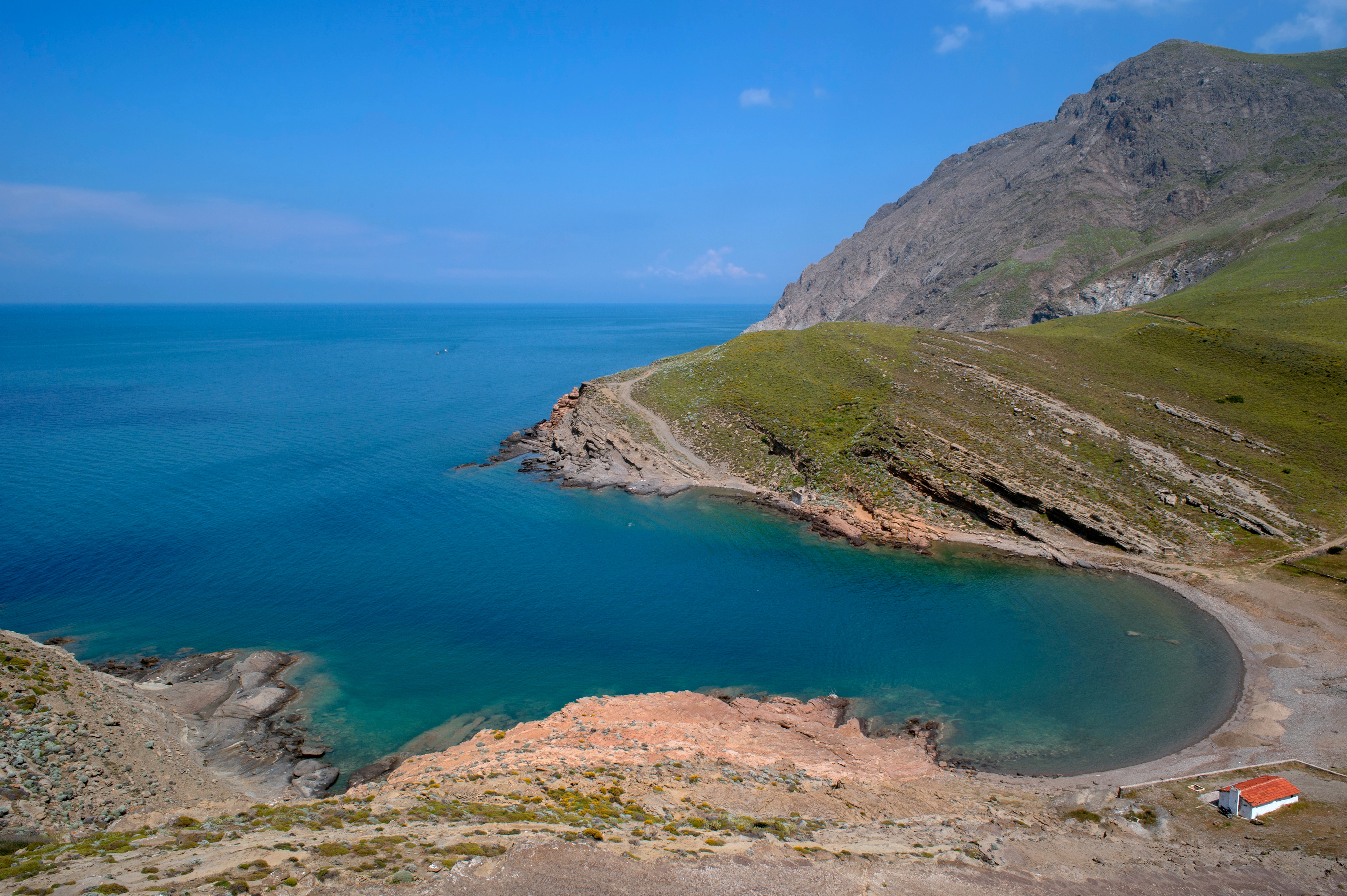 Kardamos beach, Imbros/Gökçeada island, Turkey.